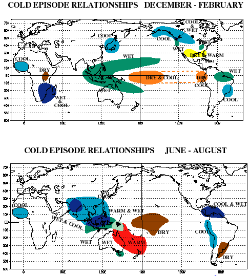 During cold La Niña episodes the normal patterns of tropical precipitation and atmospheric circulation become disrupted. Related image: Image:El Nino regional impacts.gif